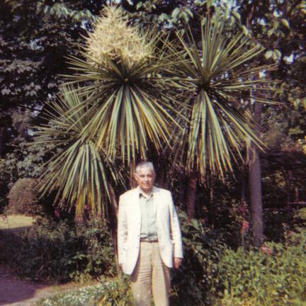 New Zealand Cabbage Trees at Woodway. They rarely flower , even in Devon, Mr.J.Ll.Griffith, the owner of the house from 1951 to the 1980's is in the foregound.